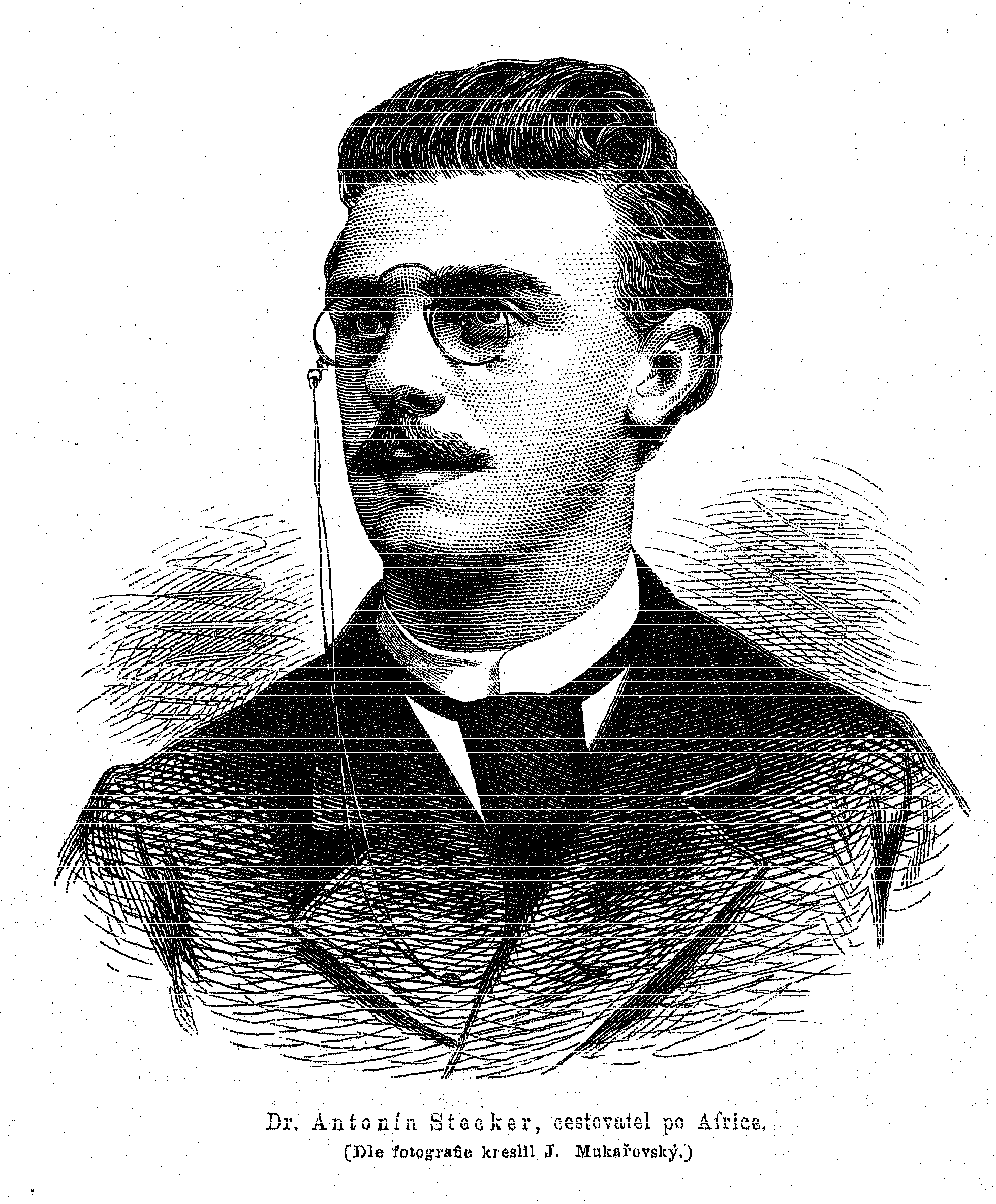 Portrait of Anton Stecker (1855 - 1888), Bohemian traveler to Africa